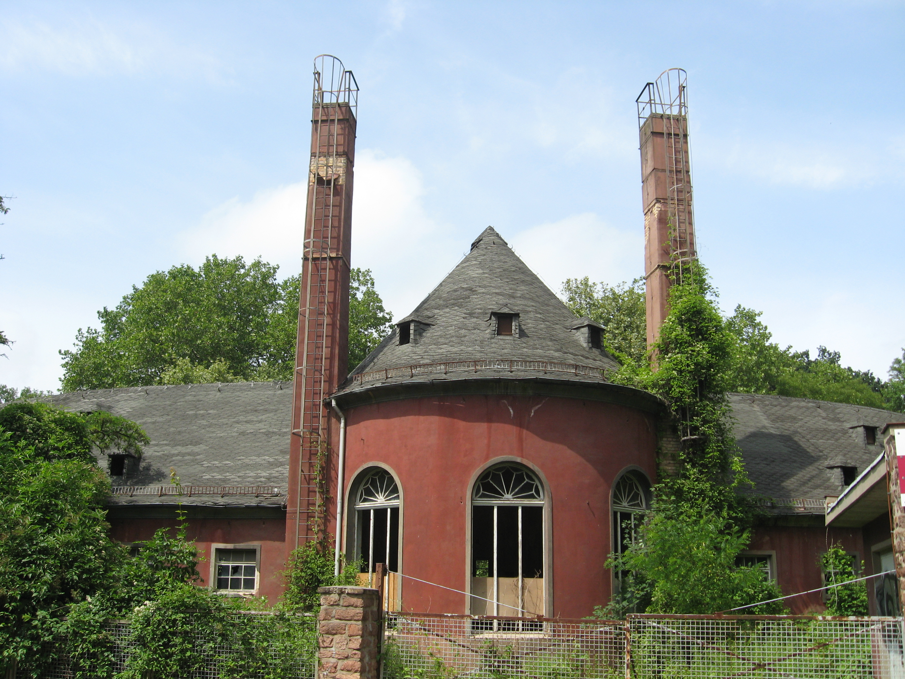 Former Wittekind saline bath, Halle (Saale), Germany